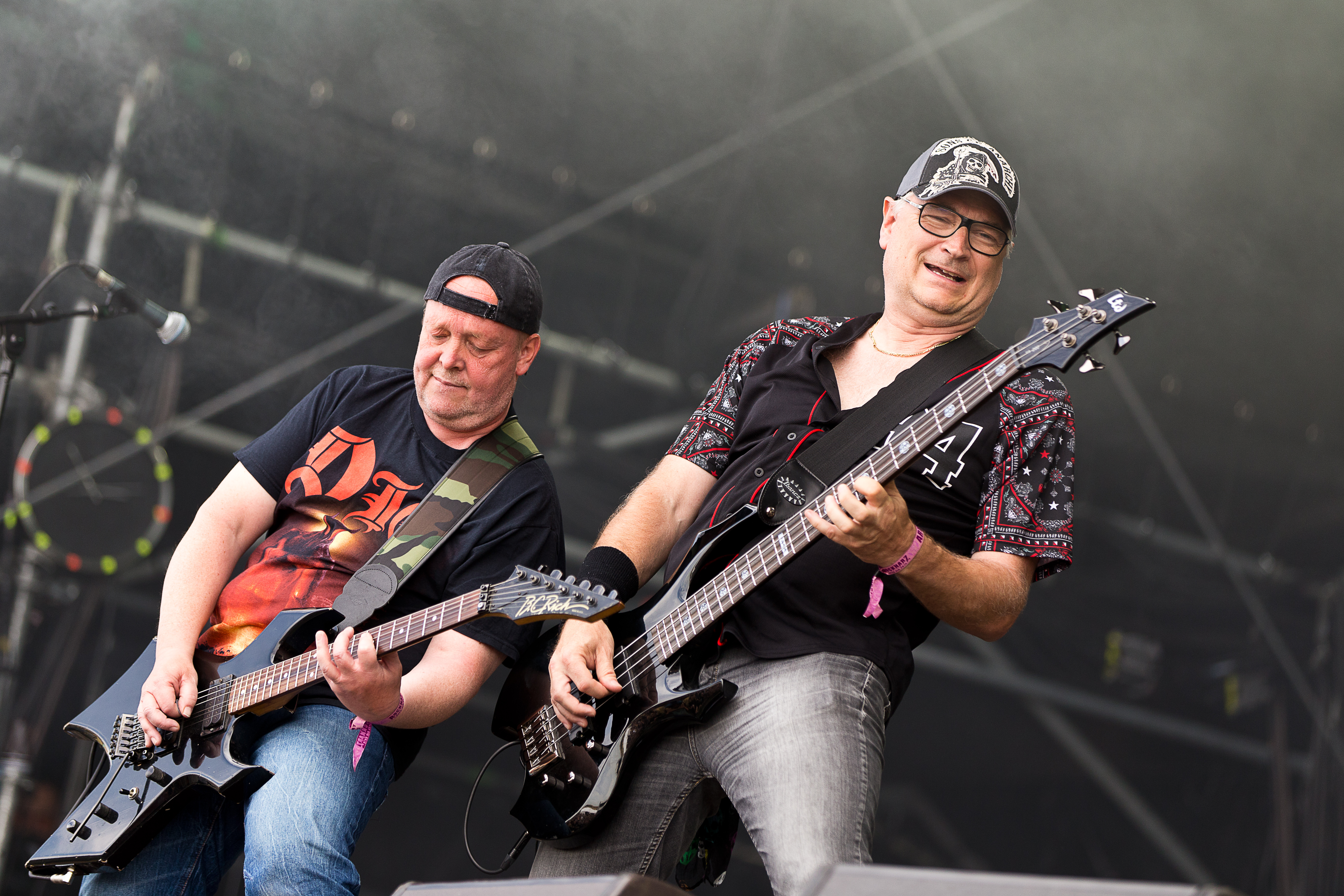 The Danish thrash metal band Artillery at the Rockharz Open Air 2015 in Ballenstedt/Germany.